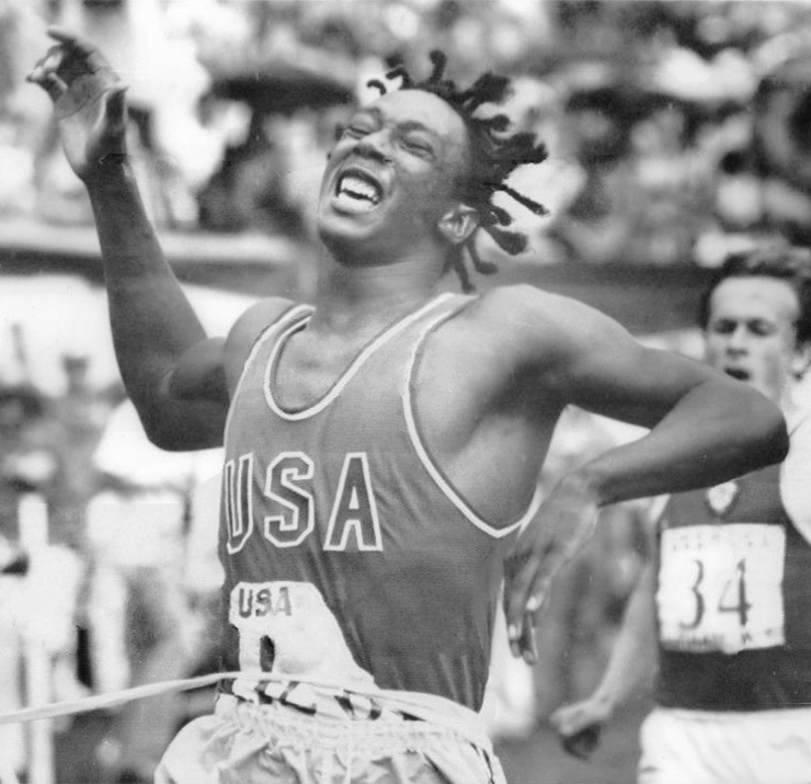 1974 Press Photo Reggie Jones wins 200 meter sprint- USSR-USA Track meet in NC